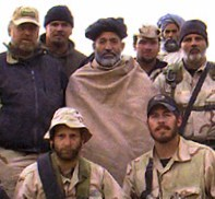 Hamid Karzai with U.S. Special Forces during Operation Enduring Freedom in 2001.